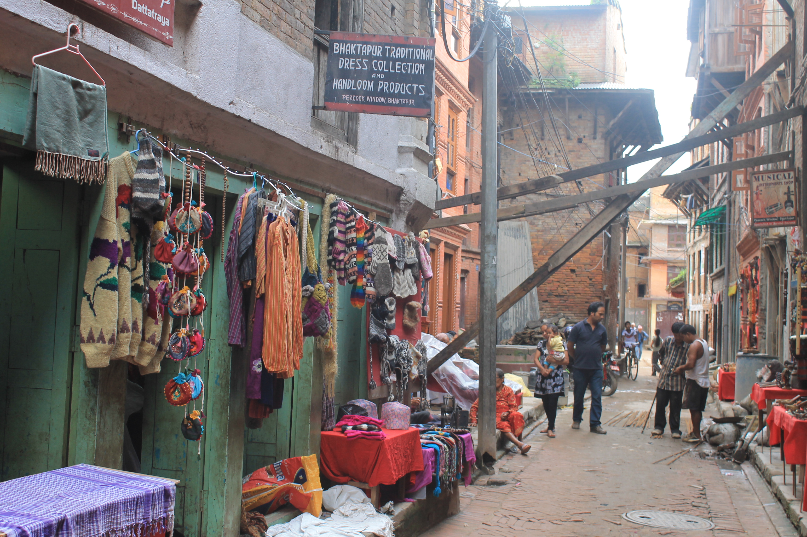 A street view in Bhaktapur, Nepal